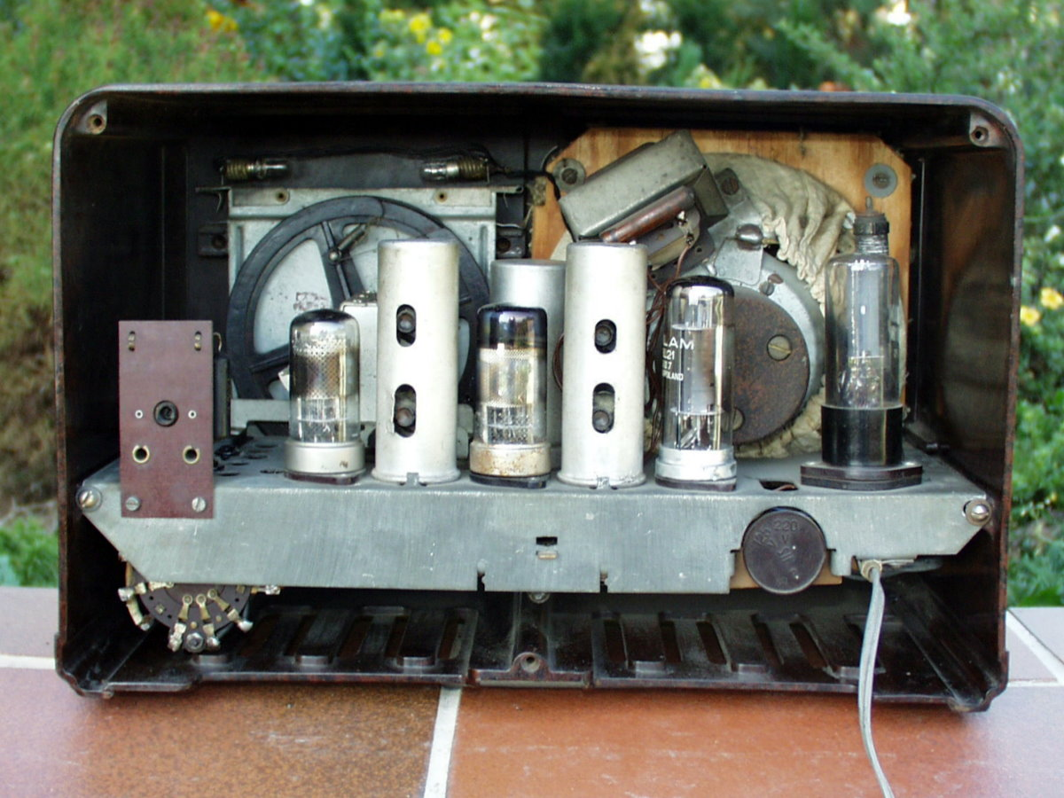 Radio "Pionier U2", manufacturer: "DIORA" (Poland), 1947-1957